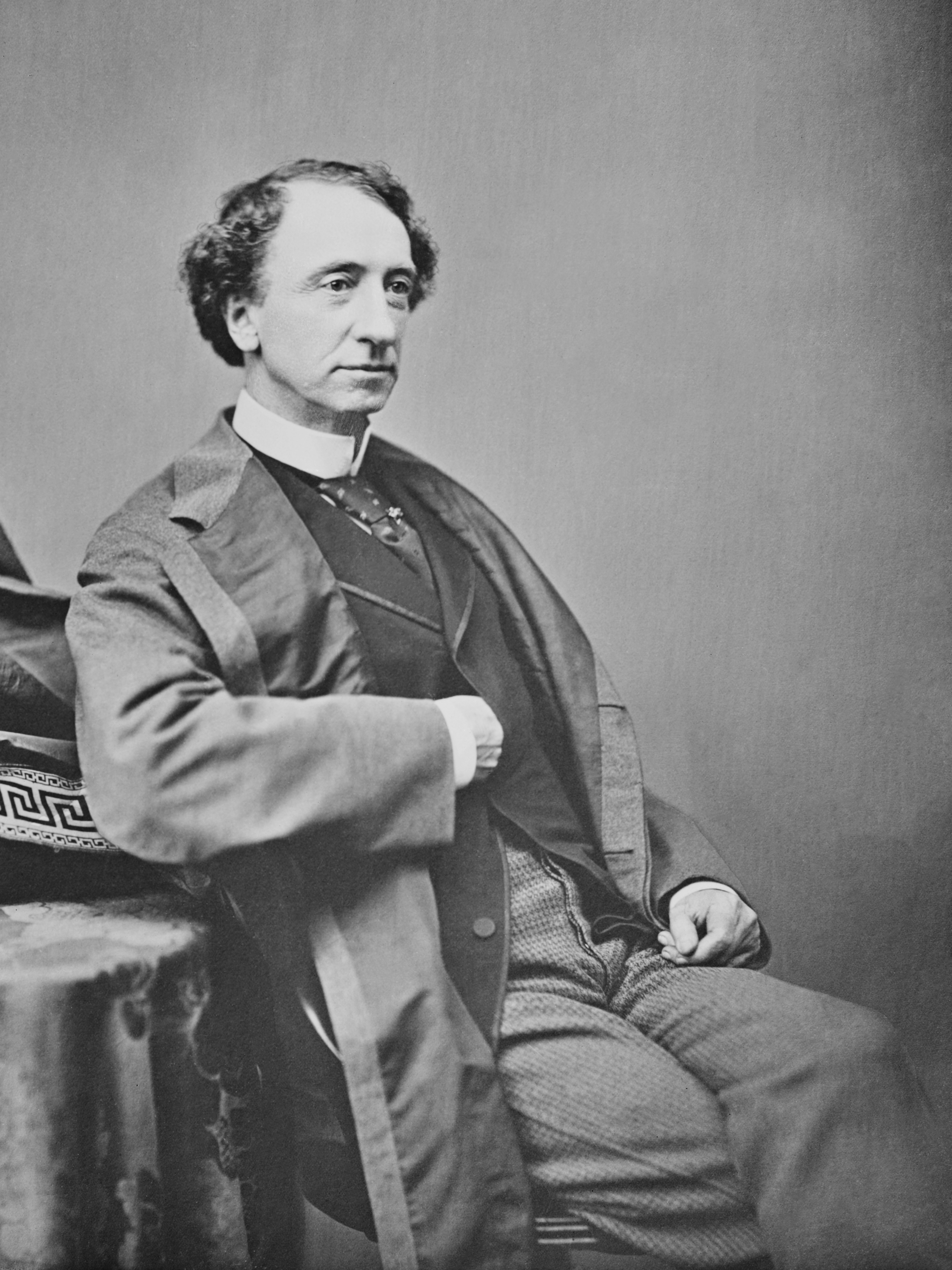 John A. Macdonald. Library of Congress description: "Hon. Sir John A. MacDonald"